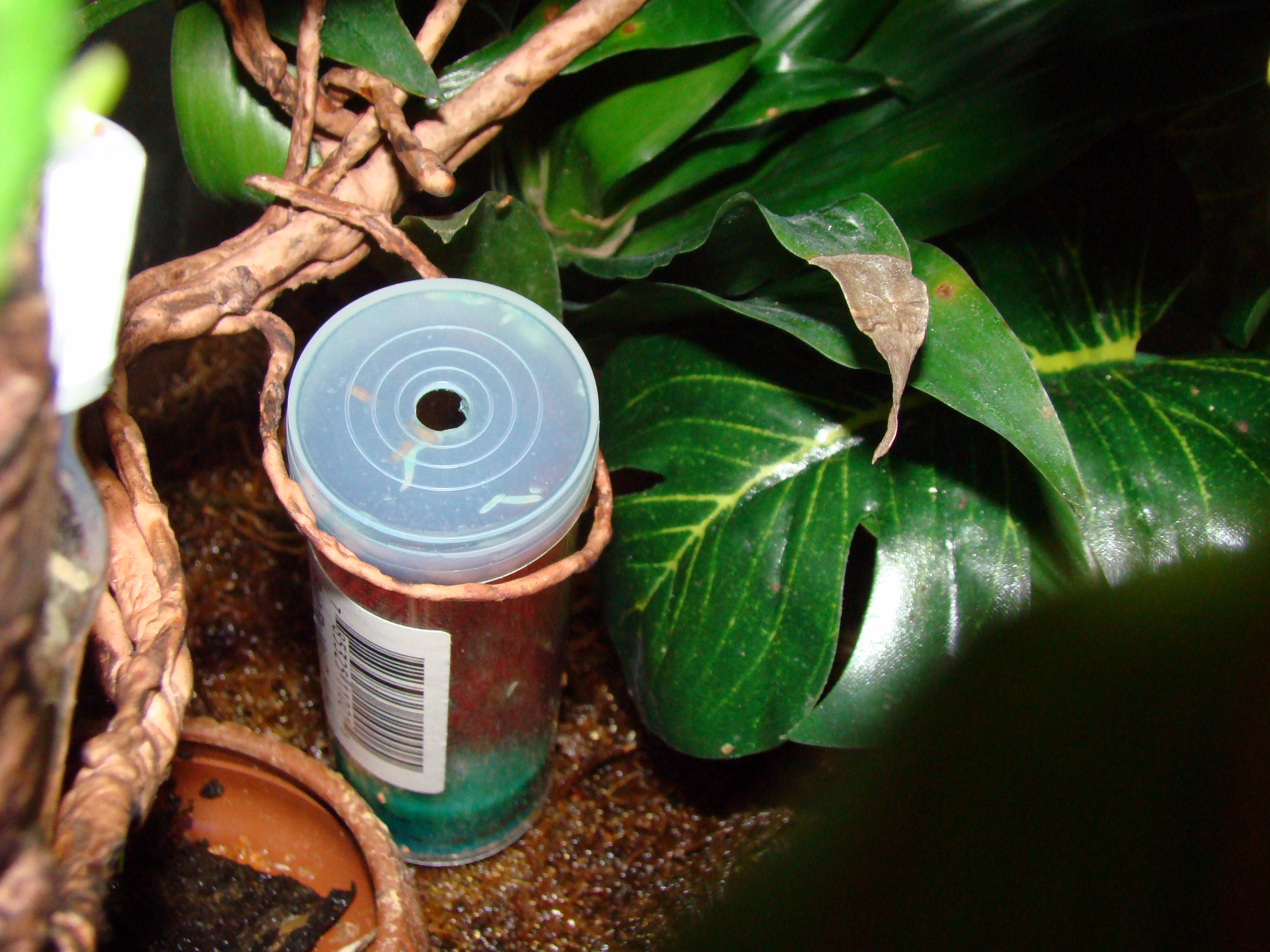 Fruit flies tube-cap